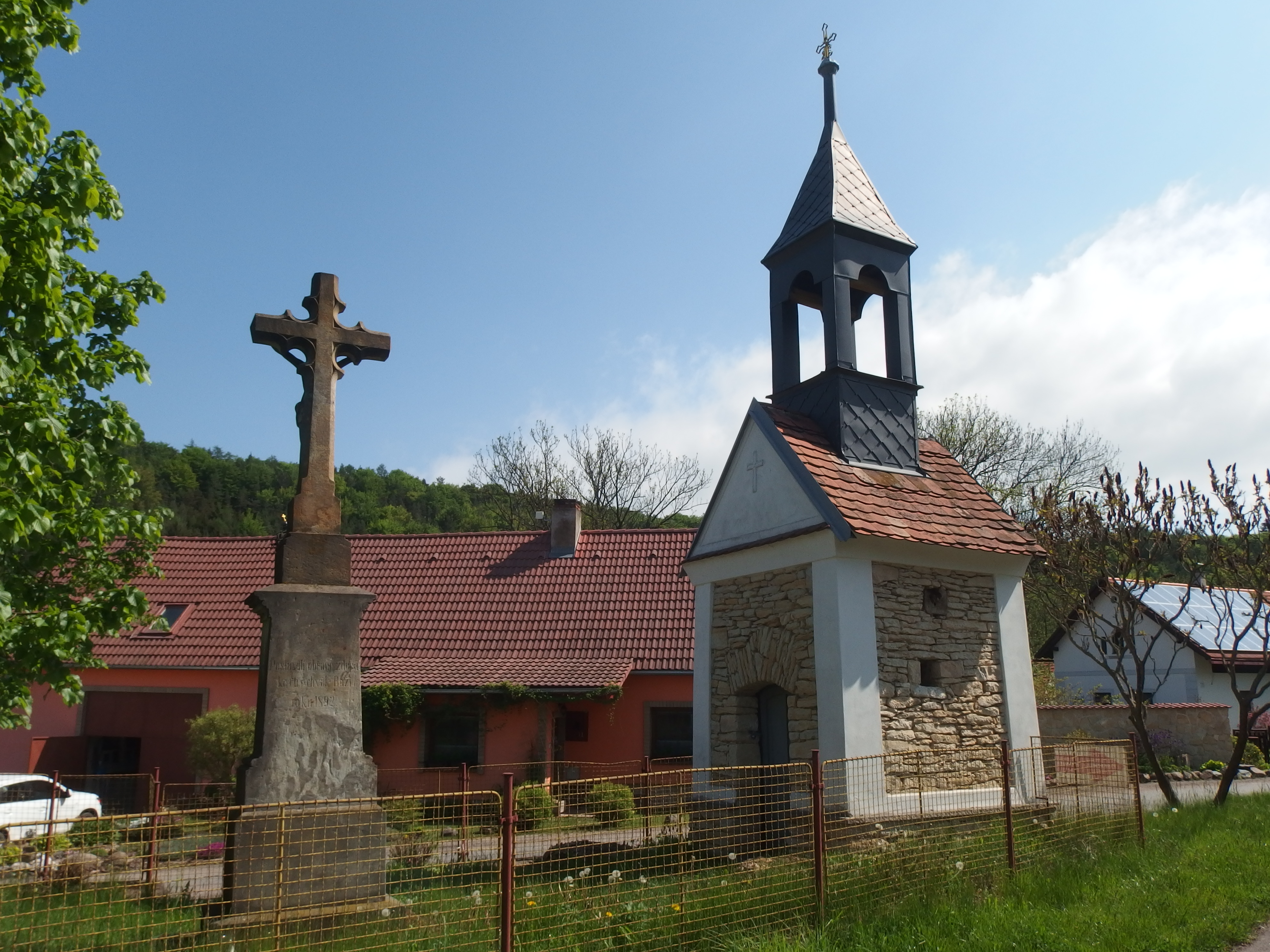 Luže, Chrudim District, Czech Republic, part Brdo.